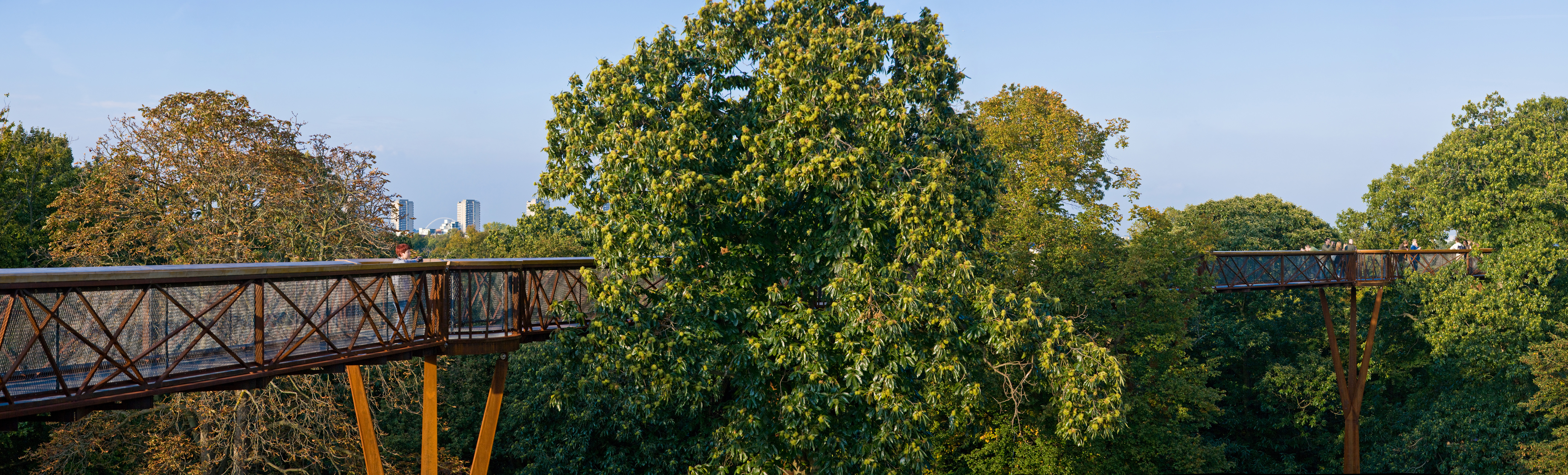 A panoramic view of approximately one third of the treetop walkway in the Royal Botanical Gardens in Kew, London. Taken by myself with a Canon 5D and 24-105mm f/4L IS lens at 105mm.